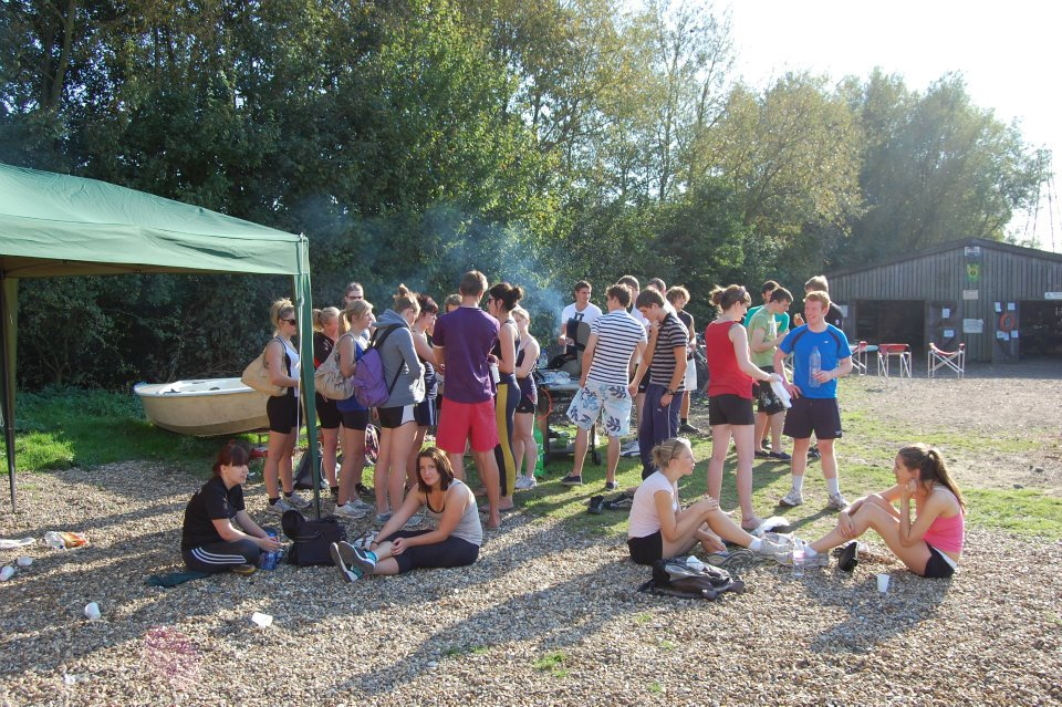 UEABC BBQ 2011